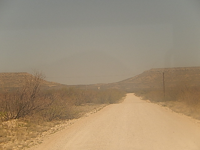 I took photo of dirt road to Castle Gap in Crane County, TX, with Nikon camera.